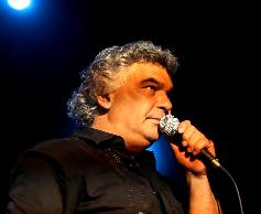 Nicolas Reyes (Gipsy Kings) singing in concert